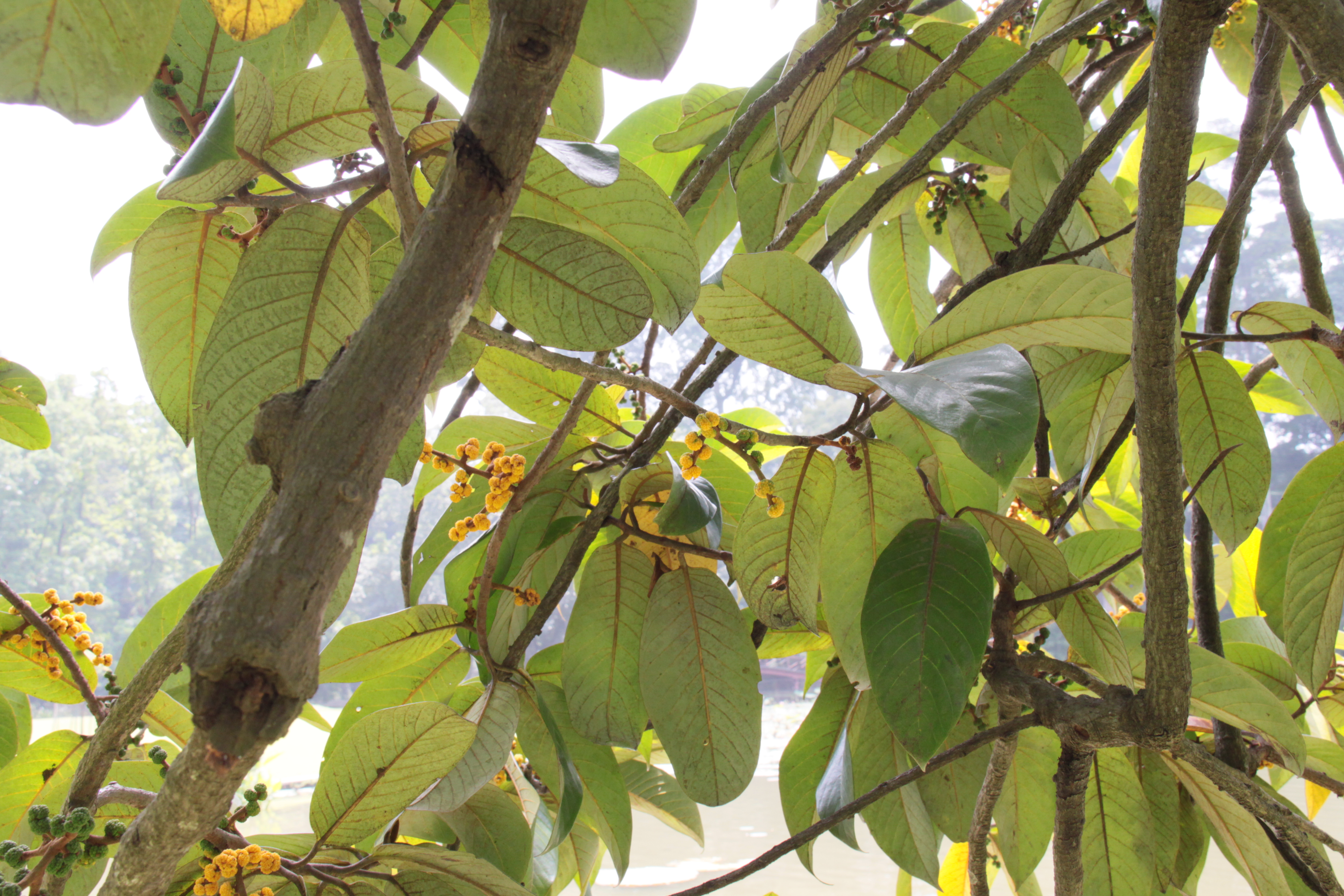 Kingdom: Plantae (unranked): Angiosperms (unranked): Magnoliids Order: Magnoliales Family: Myristicaceae (nutmeg family, Muskatnussgewächse) Genus: Horsfieldia Horsfieldia iryaghedhi (Gaertn.) Warb. Indonesia, W-Java, Bogor Botanical Garden, 23.09.2009 IMG_4353